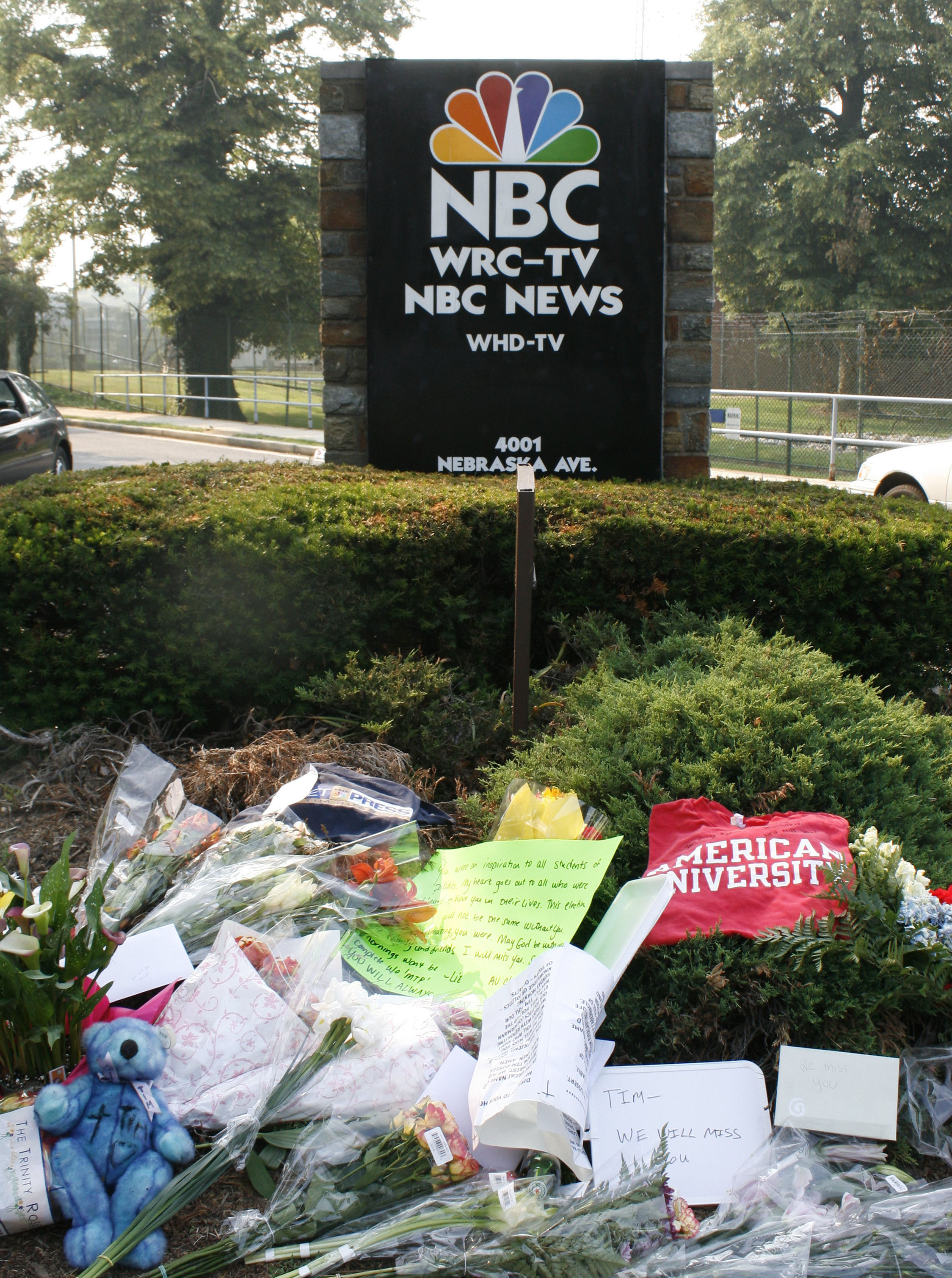 Memorabilia and messages at the entrance to WRC-TV (NBC Washington studios), 4001 Nebraska Avenue N.W., Washington D.C., on the day after NBC News Washington bureau chief and Meet the Press host Tim Russert died. Original caption: “In memory of Tim Russert (1950-2008) moderator of 'Meet the Press" the longest running political show on US television”